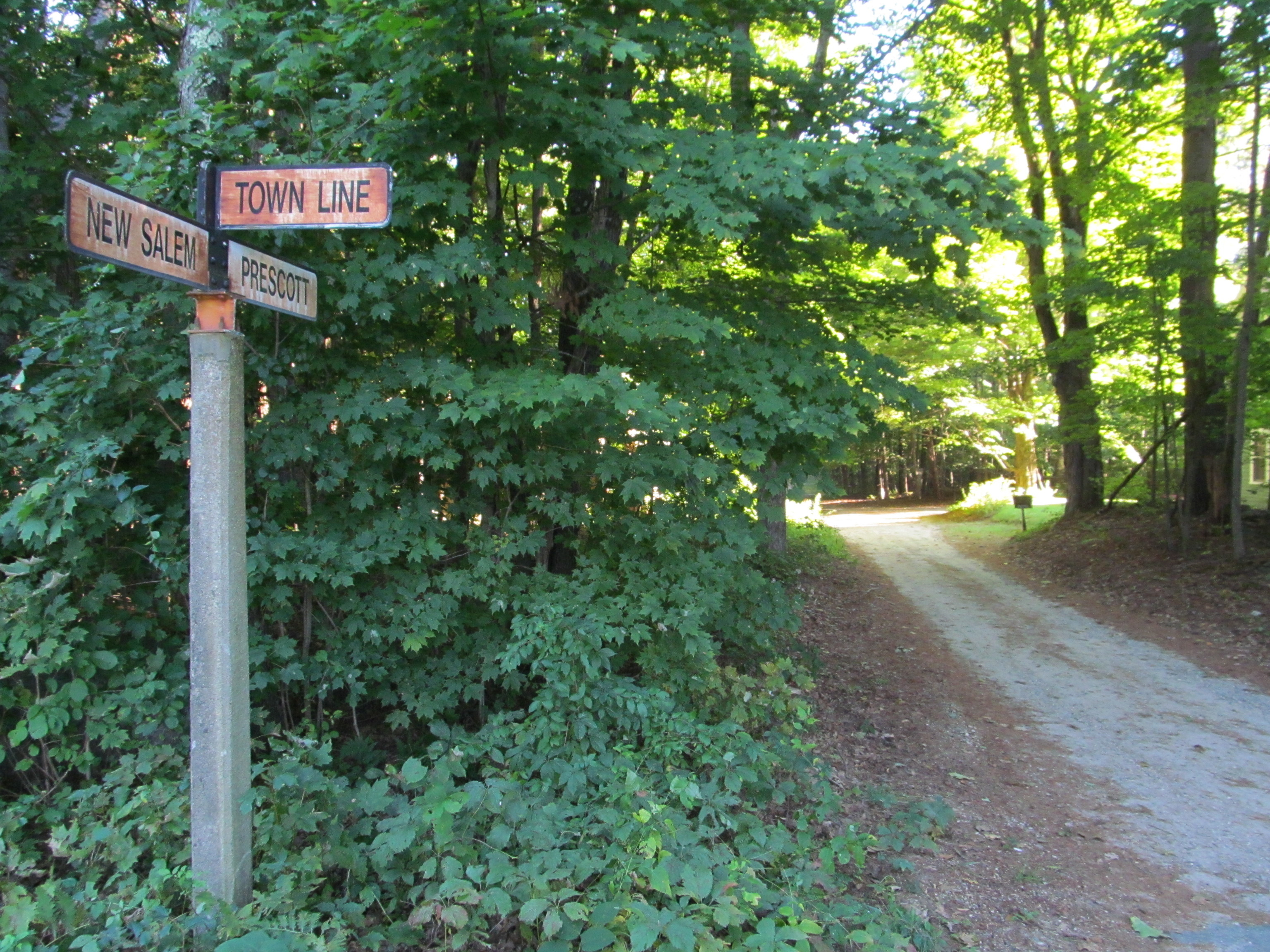 Entering Prescott Massachusetts